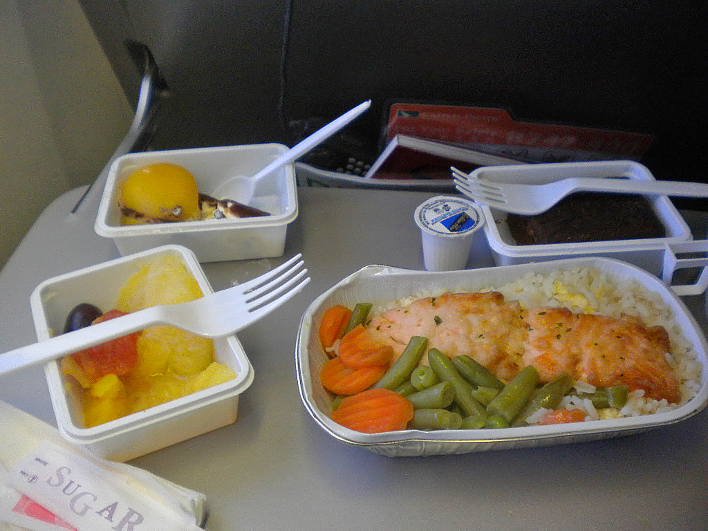 The unwrapped serving of KSML onboard CX391.